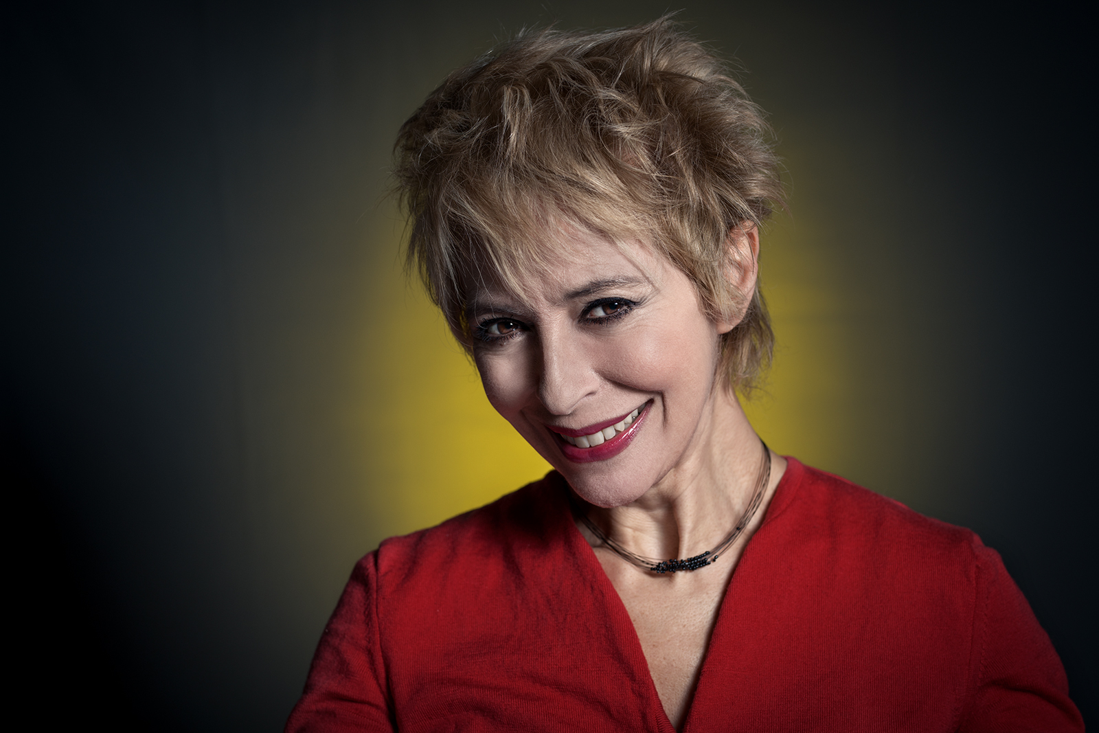 Portrait of the actress Gianna Coletti, by Sergio Bertani